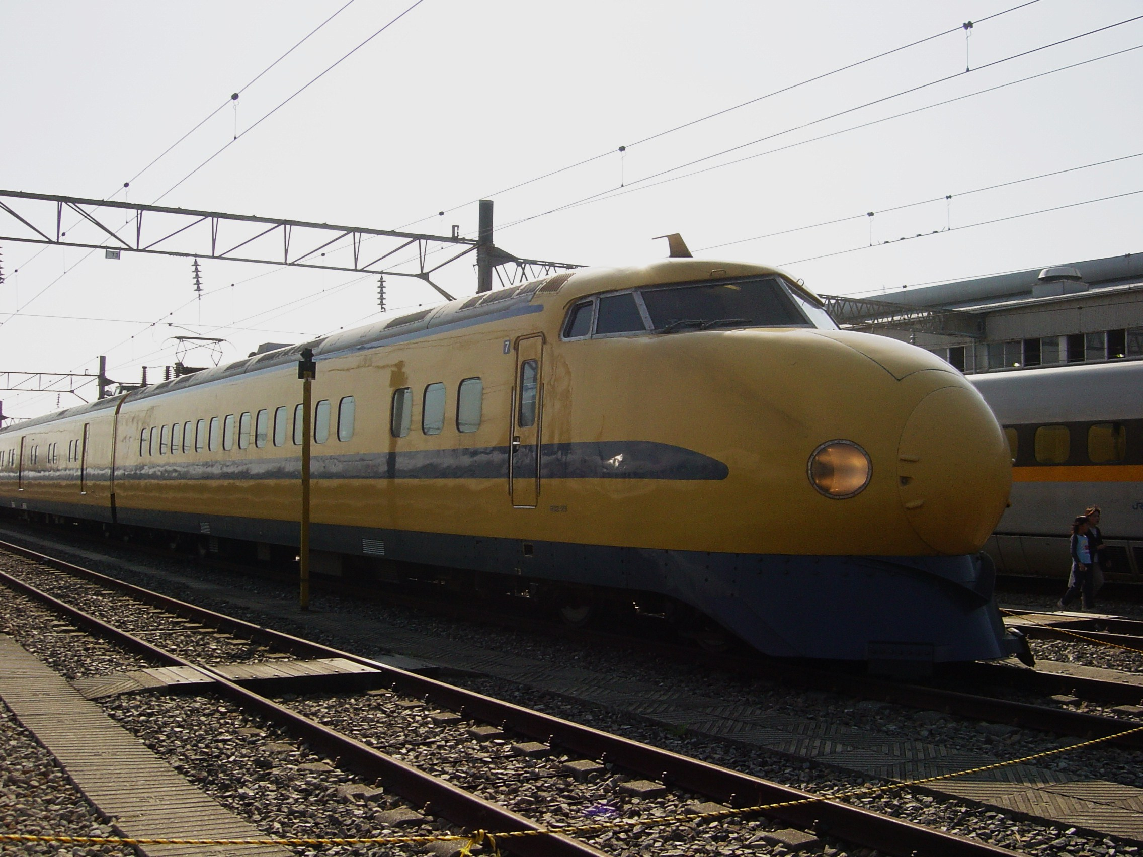 JR West Class 922 "Doctor Yellow" trainset T3